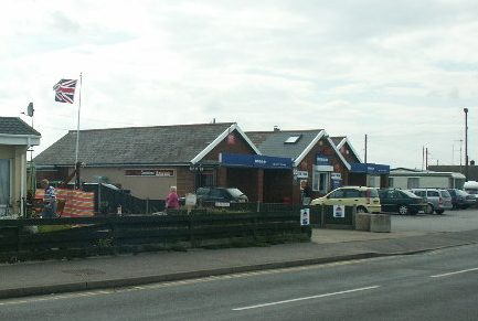 The post office and village shop in Walcott, Norfolk, England.